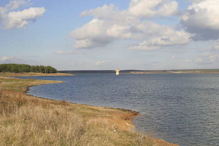 Dam Malko Sharkovo, Bulgaria